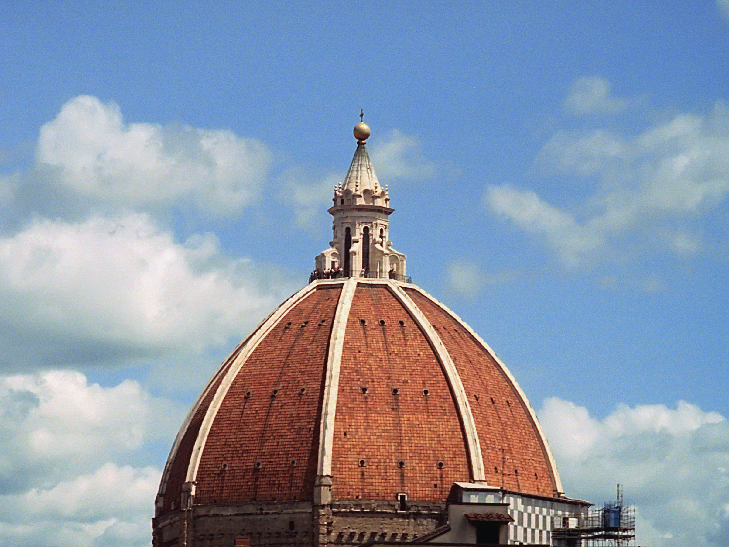 Cathedral's dome, Firenze, Tuscany, Italy.